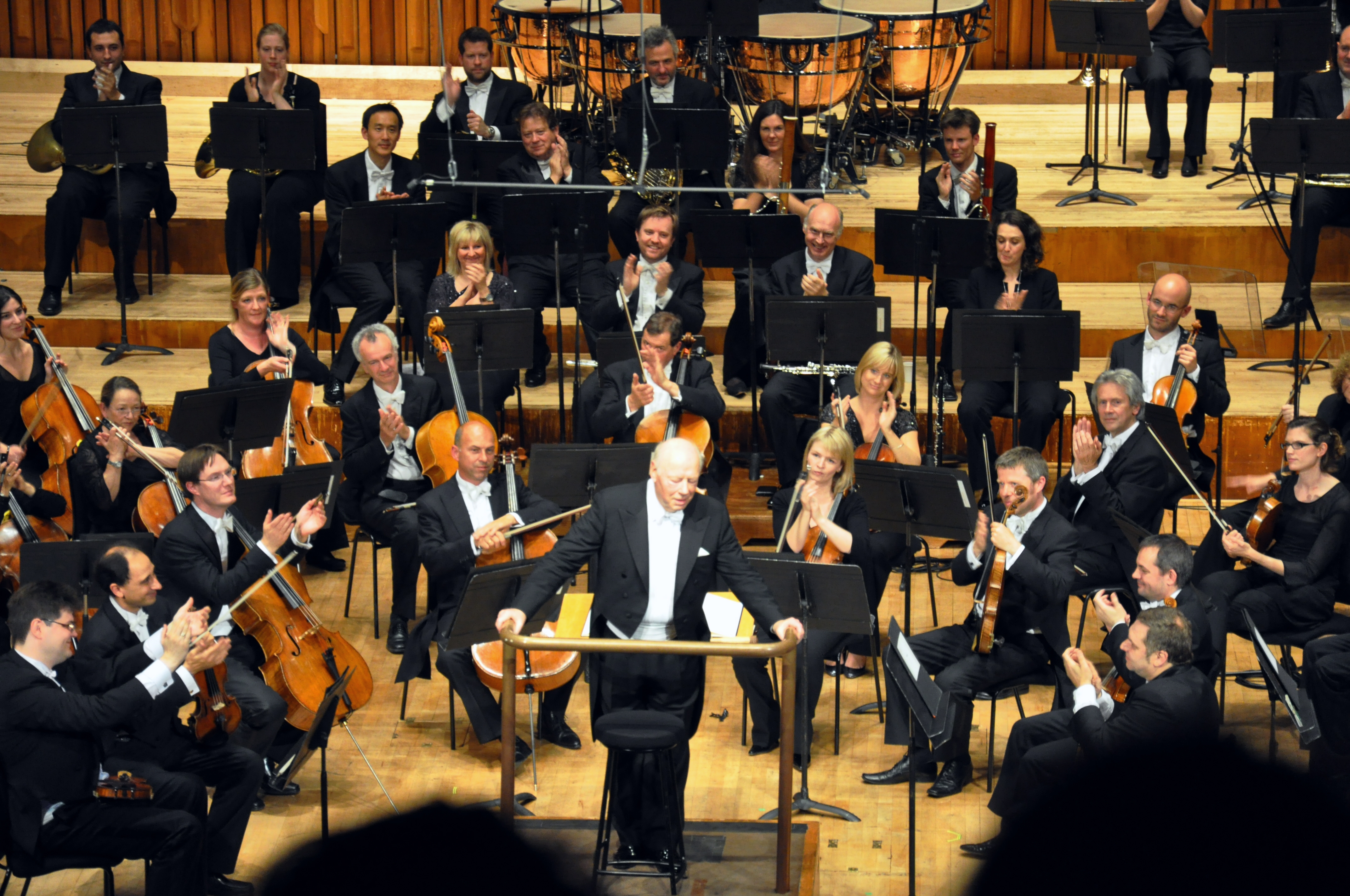 London, Barbican Hall, Bernard Haitink and the London Symphony Orchestra